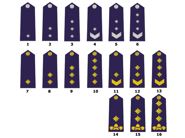 epaulettes of prison service Czech republic